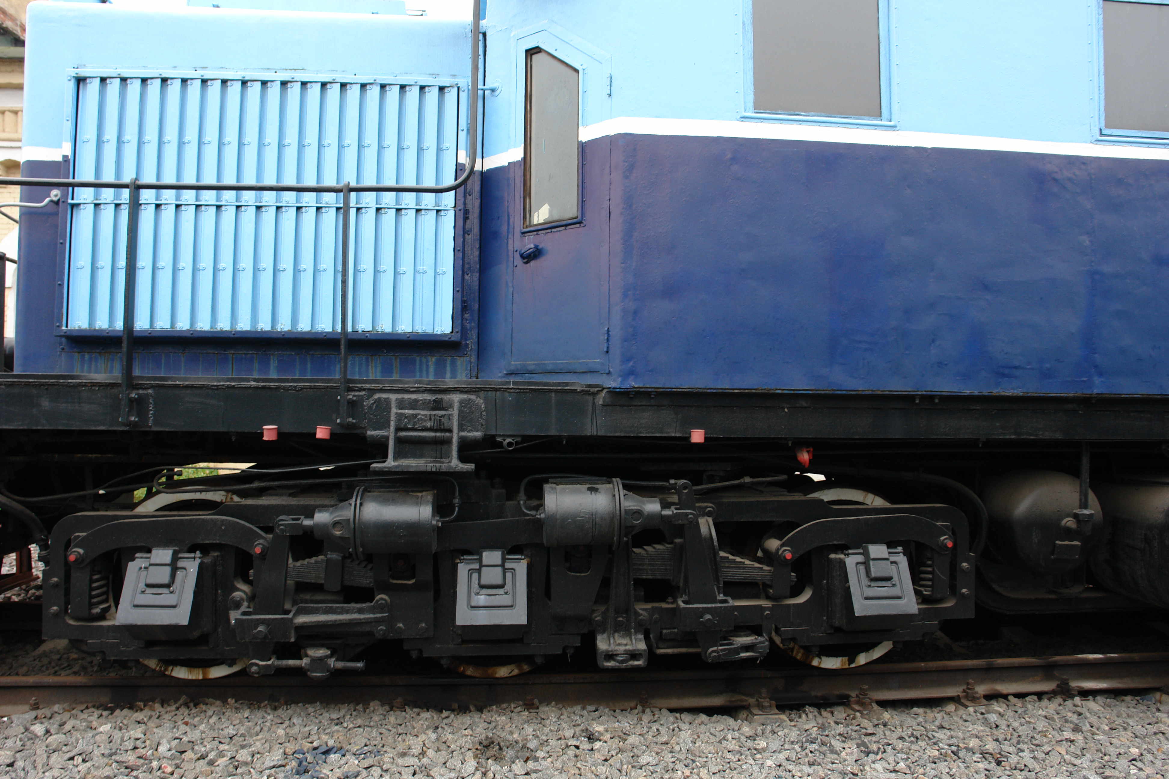 Freight and passenger diesel locomotive TE5-20-032 (test unit) Weight in working order120 t.Design speed93 kphPower1OOOhpTransmissionelectric Built by the Khar'kov Transport Machine-building Works in 1948. This Is a modification of the class TE1 diesel locomotive for use in the extremely low temperatures of the far north. Worked on Moscow-Kursk, Northern, Orenburg and Turkestan-Siberian railways. Received by the museum from the UM Trust at Cheliabinsk in 1992.